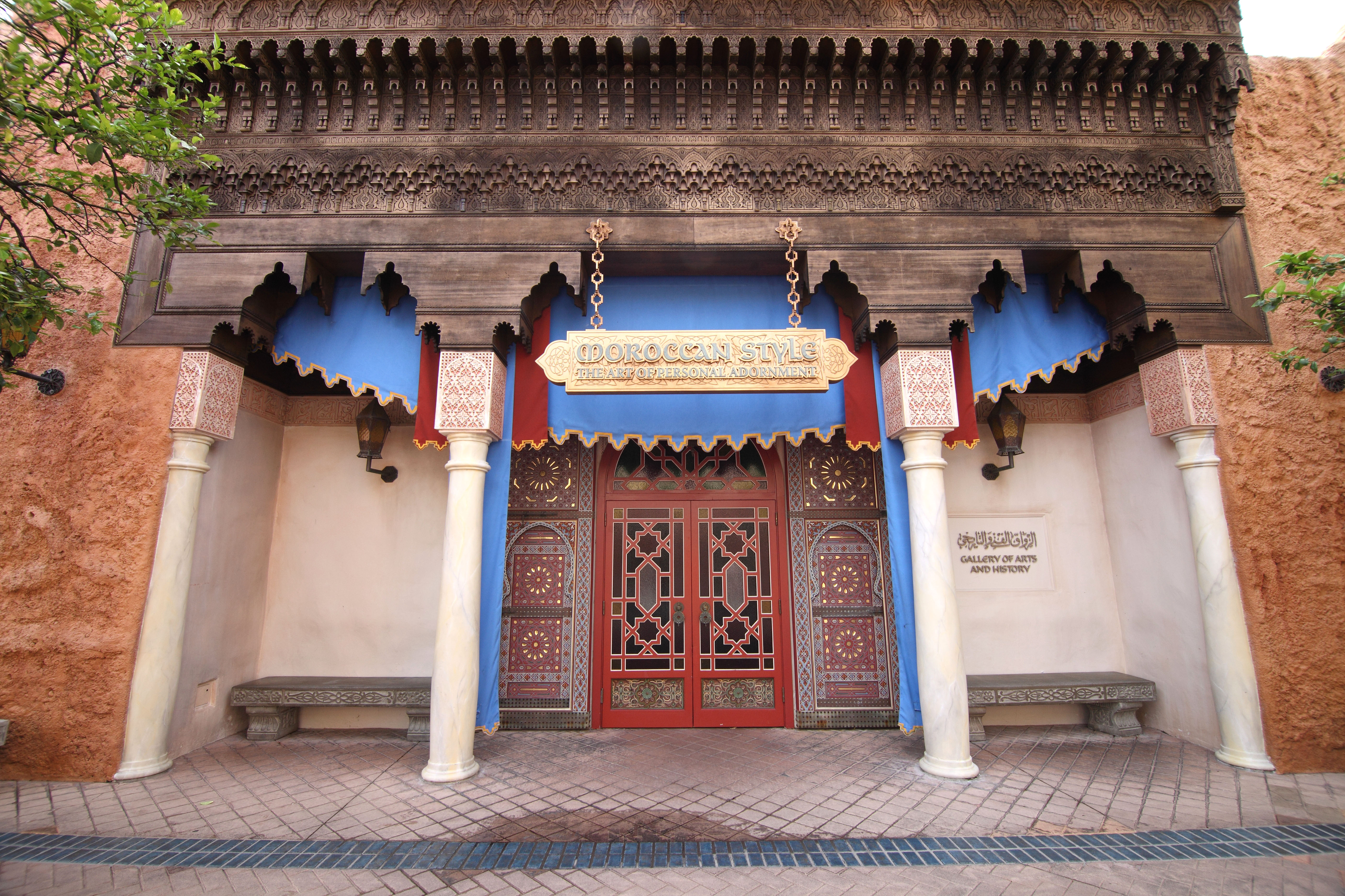 The Gallery of Arts and History in Morocco Pavilion in World Showcase at EPCOT Center.